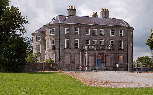 Doneraile Court Doneraile Court and its park was once the home of the St Leger family. The house probably has its origins in the 1690s, but is generally recognised to date from 1725, a time when major renovation took place. While the house is undergoing further renovation in the 21st century, the parkland meanwhile can still be enjoyed by the public, as like the house, it is now under the care of the State.